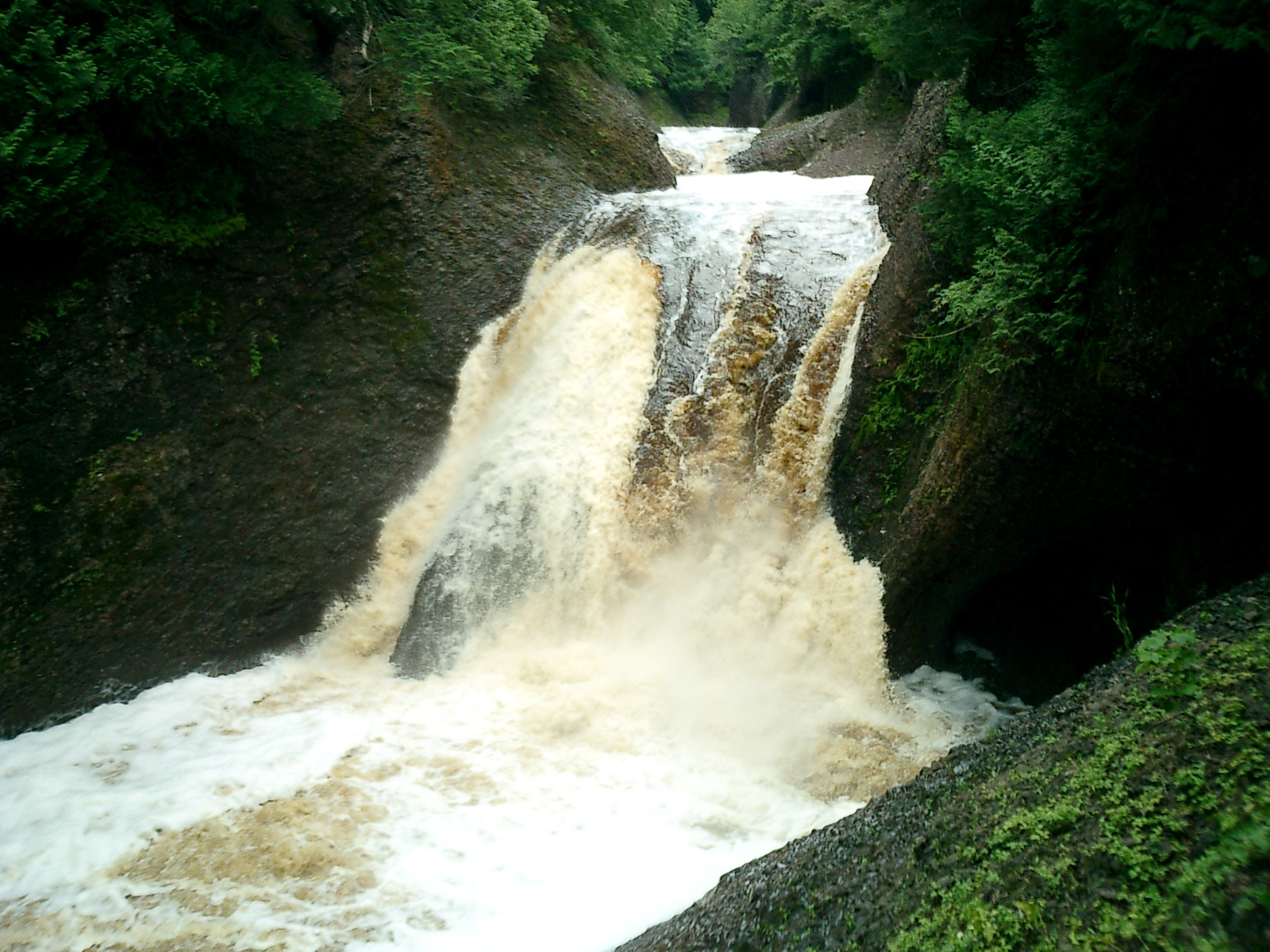 Gorge Falls on northern Michigan's Black River